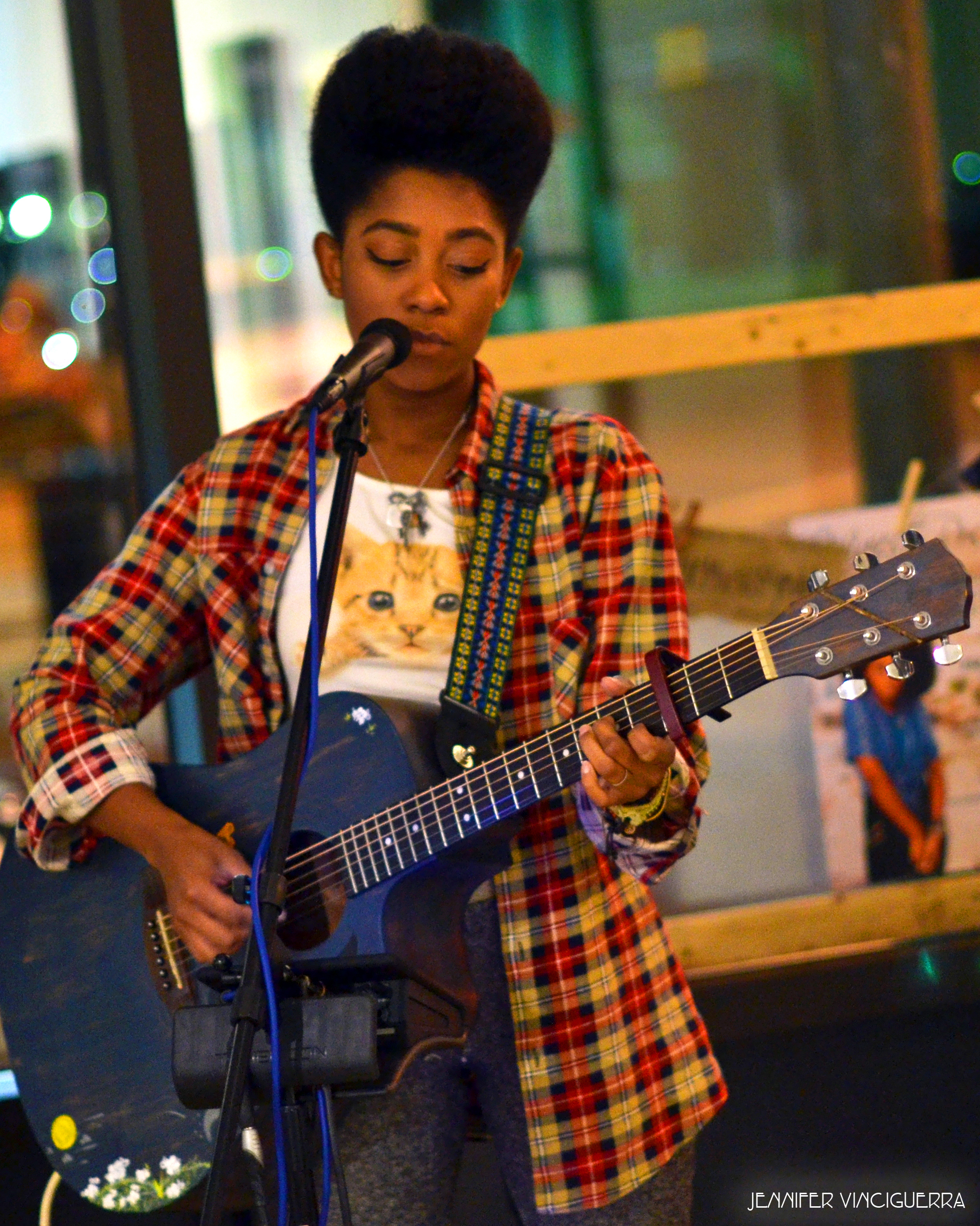 American music artist Majesty Rose performing at the Arts Council of Wayne County (Goldsboro, North Carolina) in 2015.